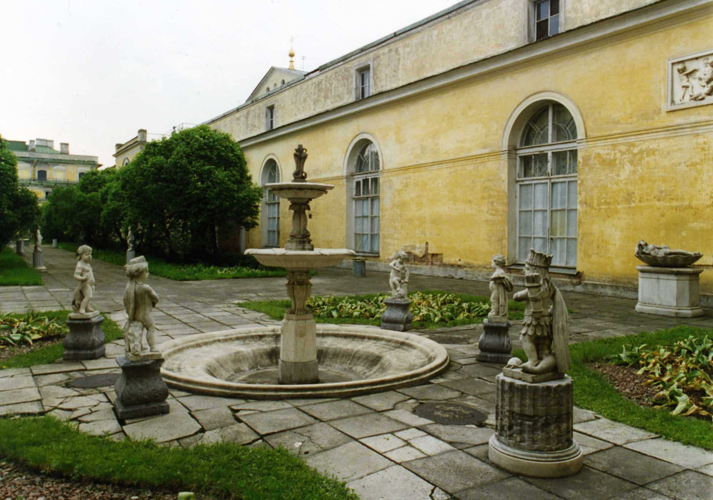 Suspended garden of the Small Hermitage. St. Petersburg 20 century